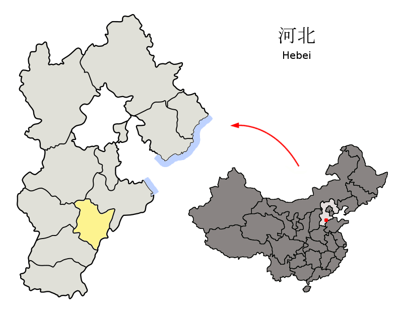 Location of Hengshui Prefecture (yellow) within Hebei Province of China Map drawn in december 2007 using various sources, mainly : Hebei Province administrative regions GIS data: 1:1M, County level, 1990 Hebei Counties map from